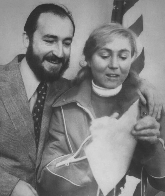 1976 Press Photo Olympic Skier Jana Hlavaty with her husband, Vaclav "Java Hlavaty examines her certificate of naturalization after she was sworn in as a citizen of the United States Monday in Chicago. Her husband, Vaclav, is by her side. Jana, 34, native of Czechoslovakia, is the second ranked cross-country skier on the U.S. Women’s team. Congress passed a special bill that enabled her to become an American citizen in time to represent the U.S. in the Winter Olympics. (AP Wirephoto)"